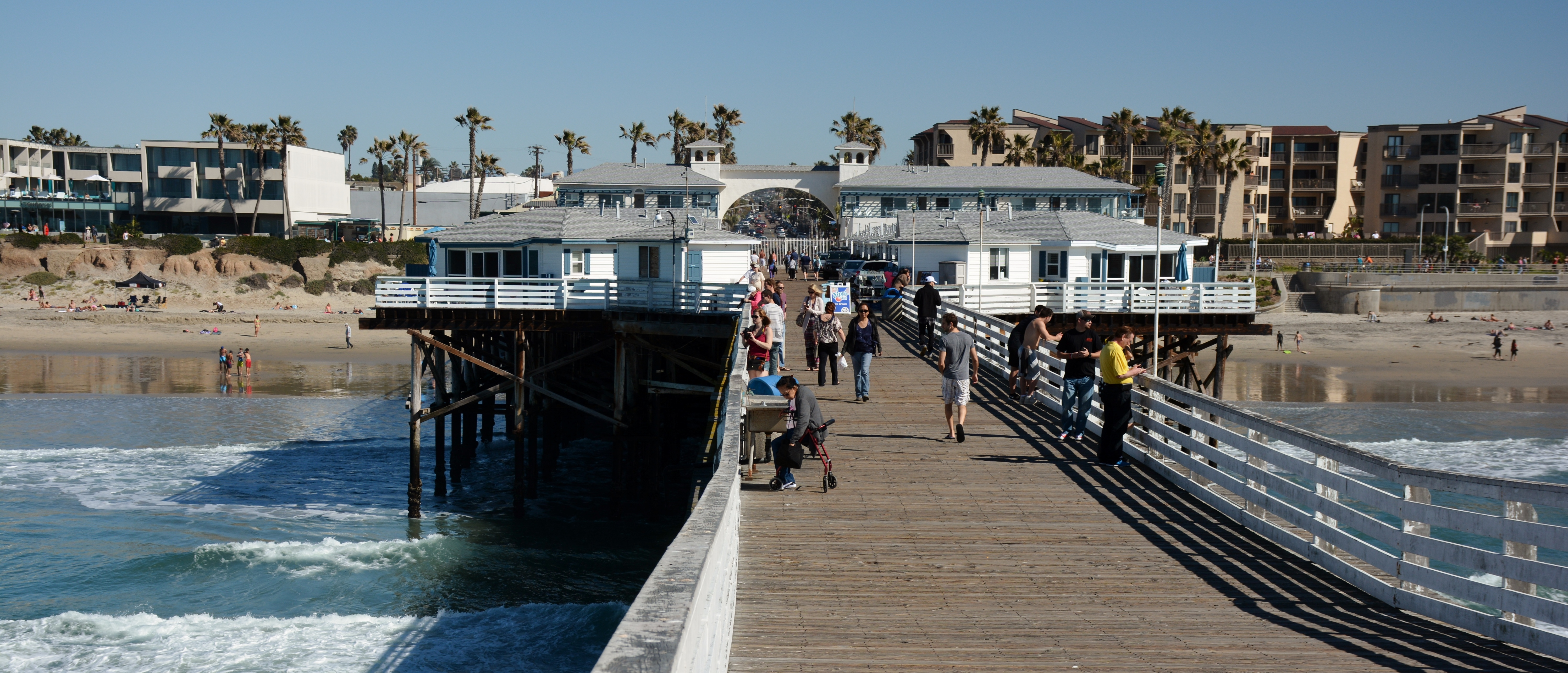 Pacific Beach, San Diego, CA, USA